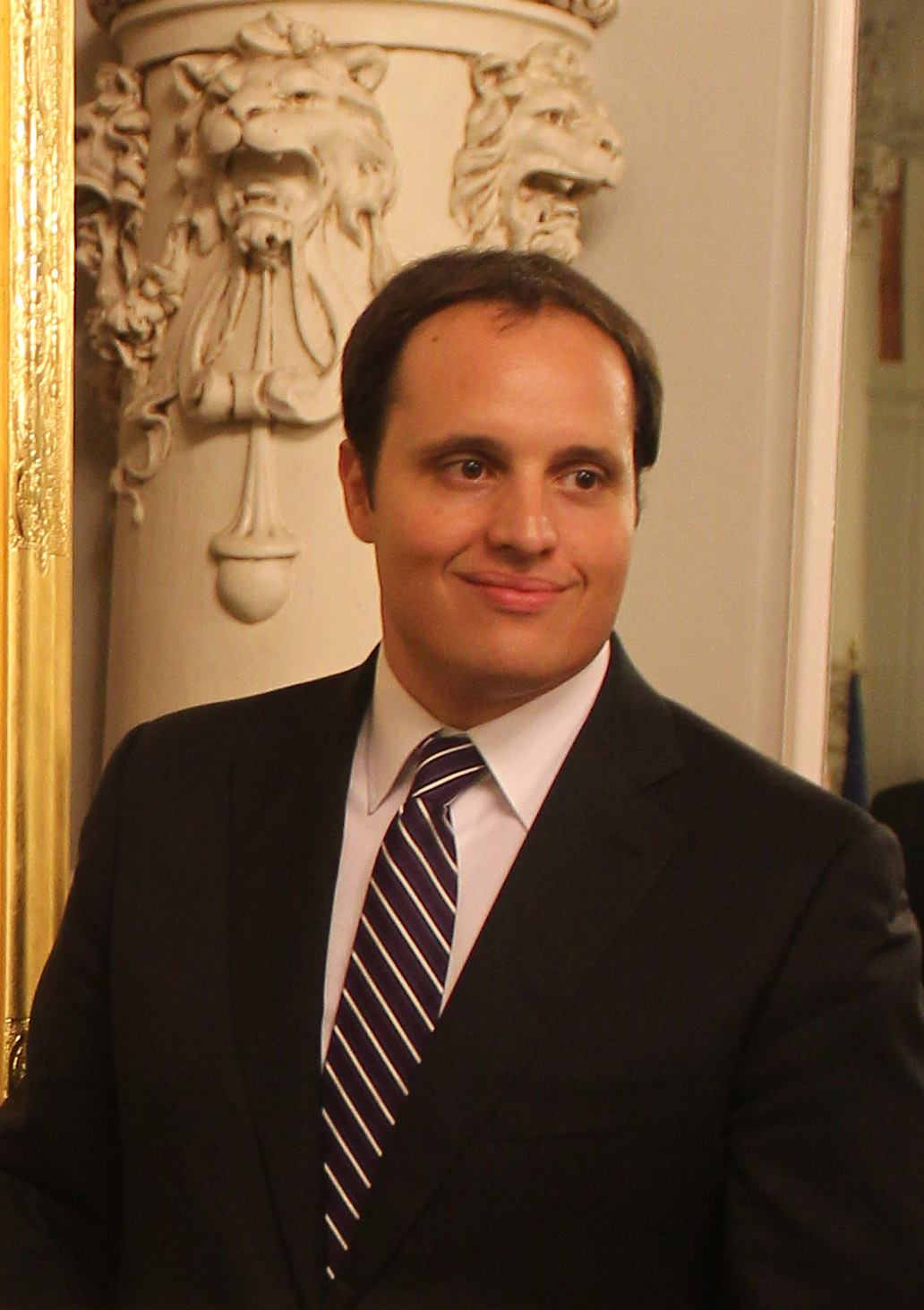 Raúl Berzosa Fernández en 2014